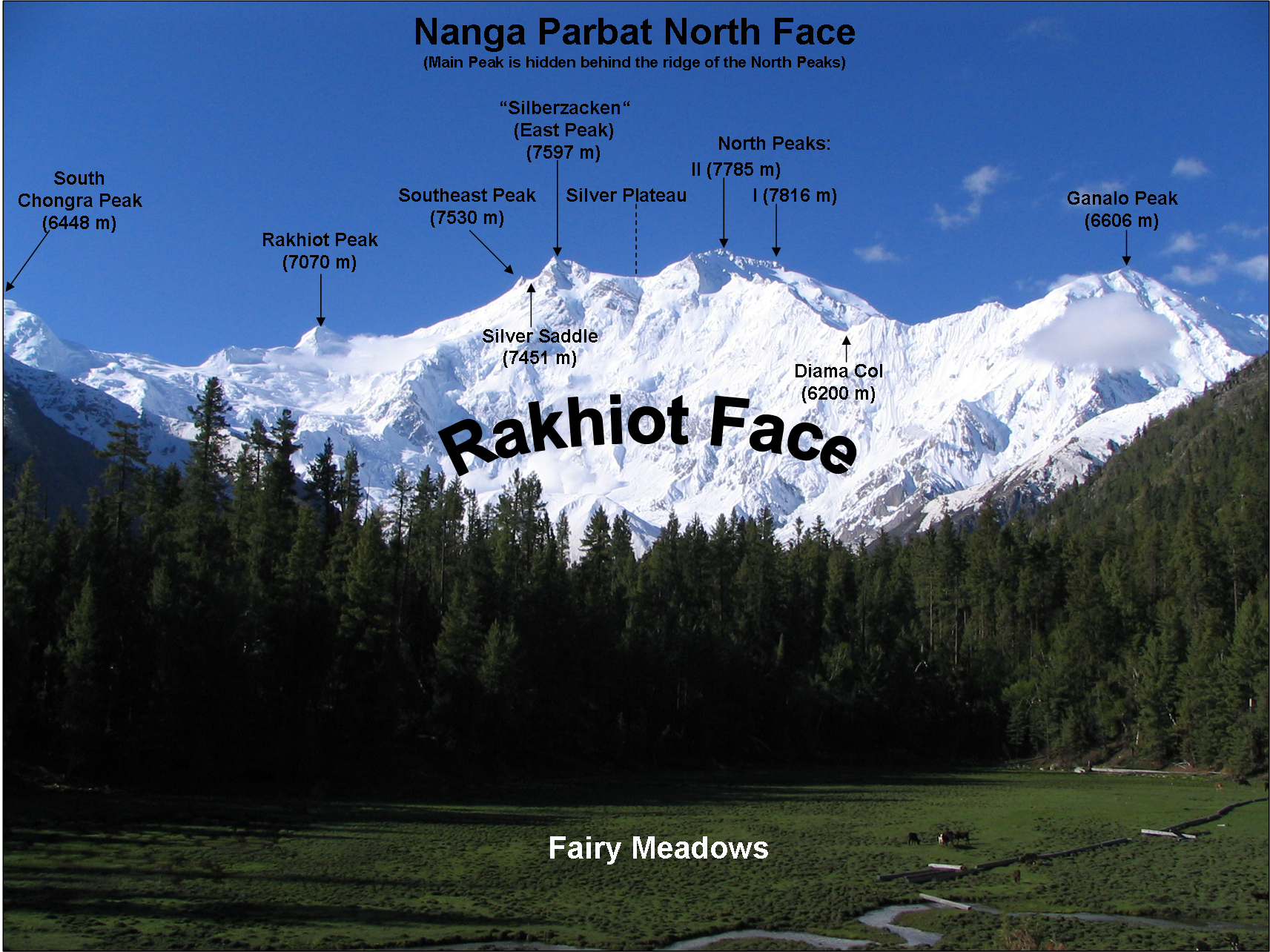 North Face of Nanga Parbat (8126 m) with annotations